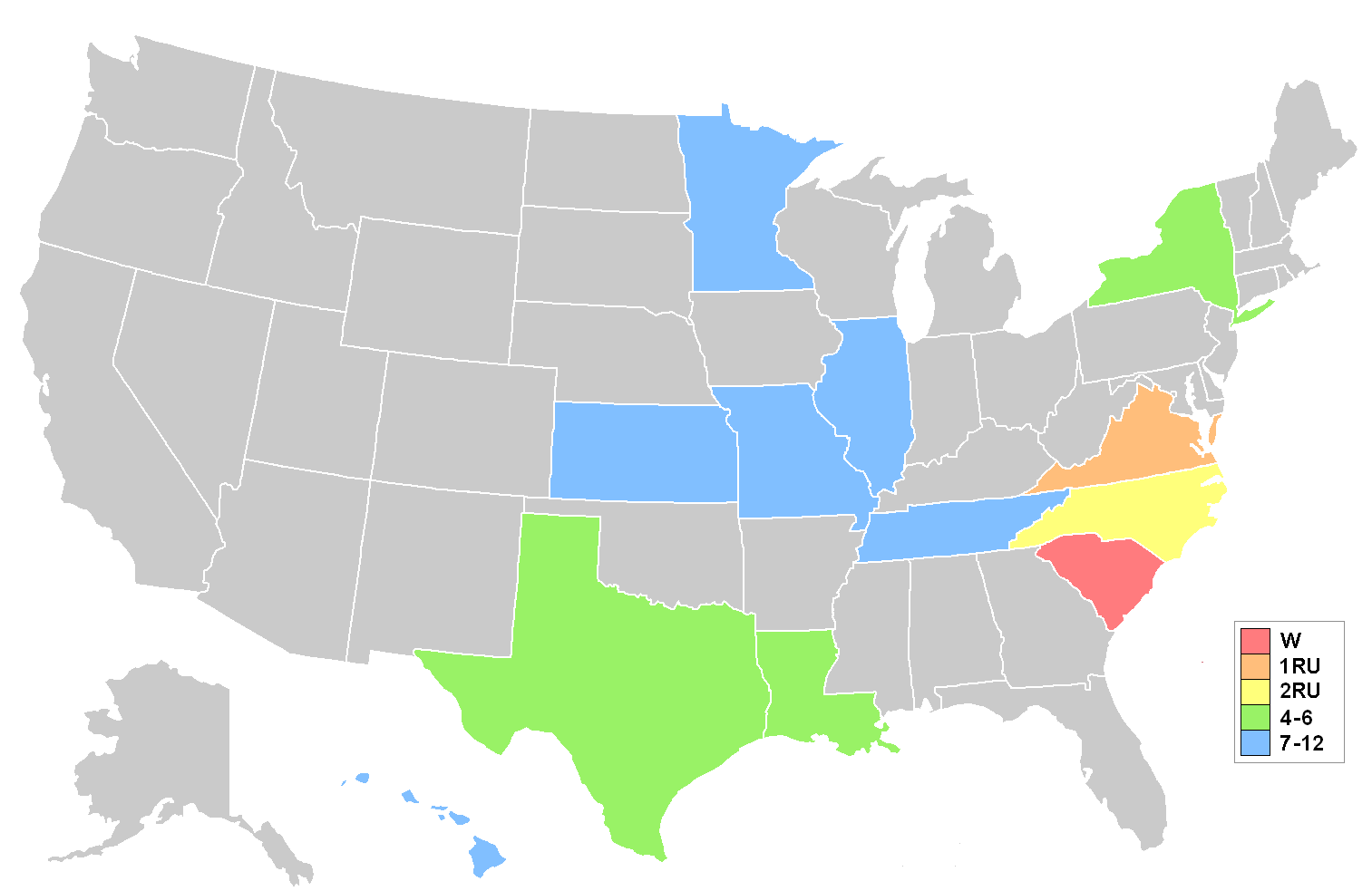 Map showing placements at the Miss USA 1994 pageant. Key on graphic shows colour coding for break down of placements.